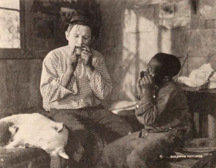 Still from the American comedy film Boys Will Be Boys (1921) with Will Rogers and an unidentified child actor, on page 54 of the February 26, 1921 Exhibitors Herald.